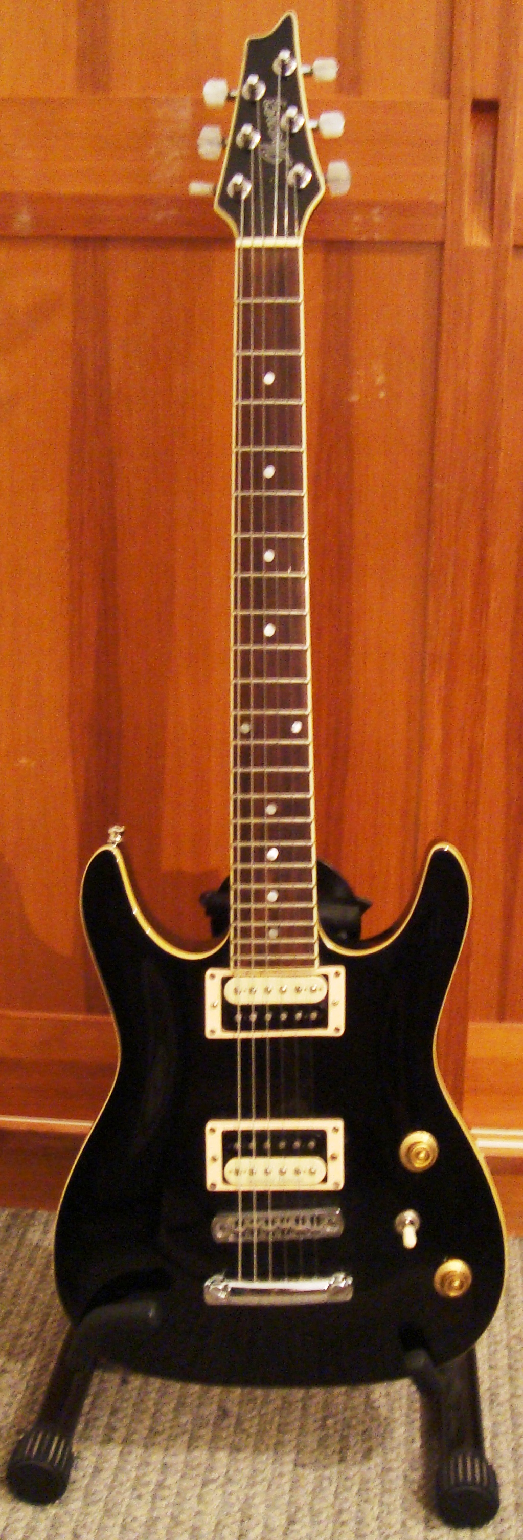 Ibanez Ghostrider GR320